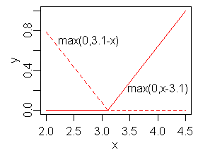 Plot of hinge functions to illustrate Friedman's Multivariate Adaptive Regression Splines (MARS)